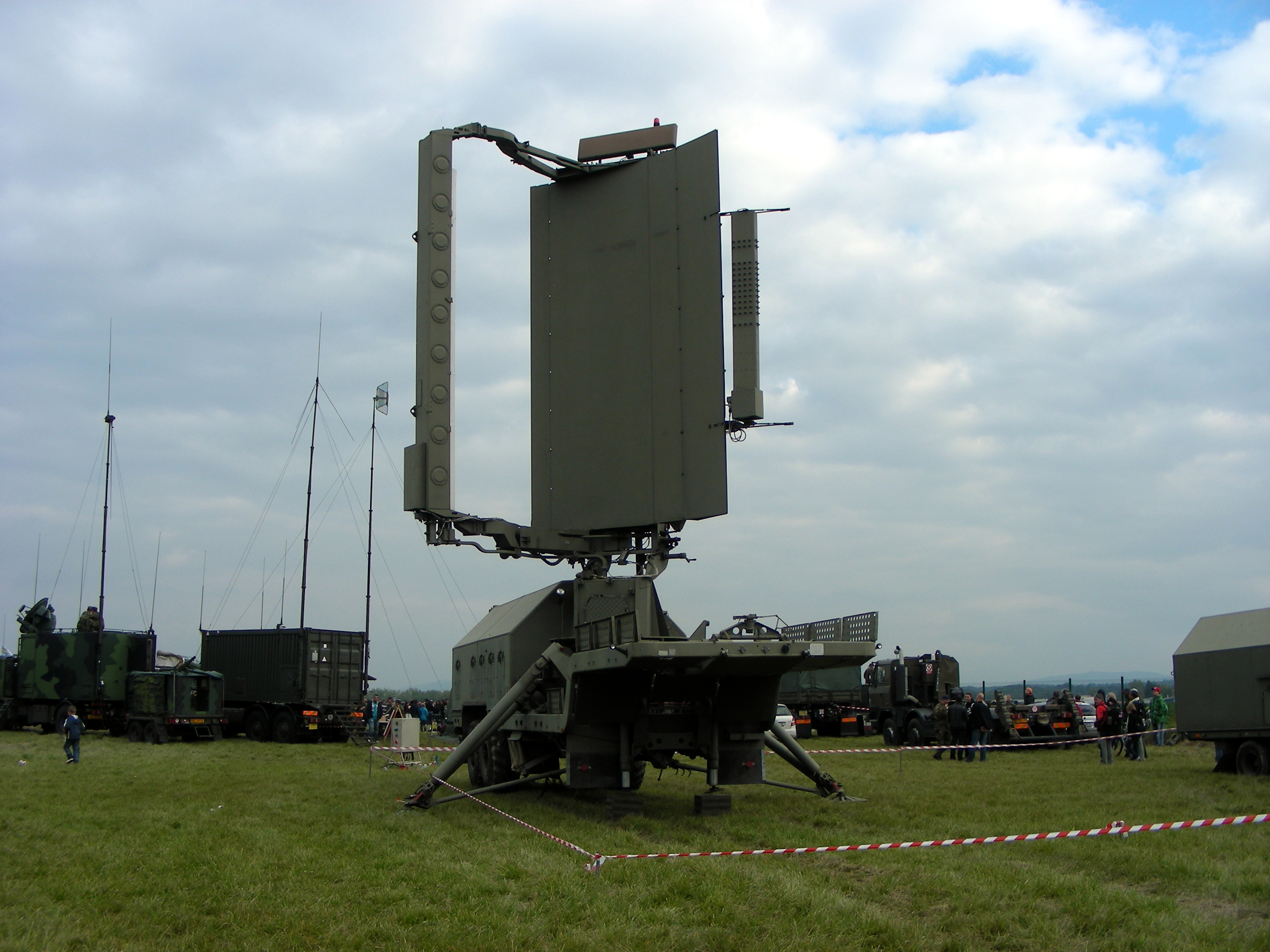 "Three-dimensional radiolocator ST-68U CZ is a mobile radiolocative device designed for radiolocation-surveillance and locating low-flying targets. The radiolocator ensures measuring in three coordinates (azimuth, angular distance and positional angle) and enables to locate a position of the source of active jamming. The device is, after modernization, able to fully and automatically output quality radiolocation data."